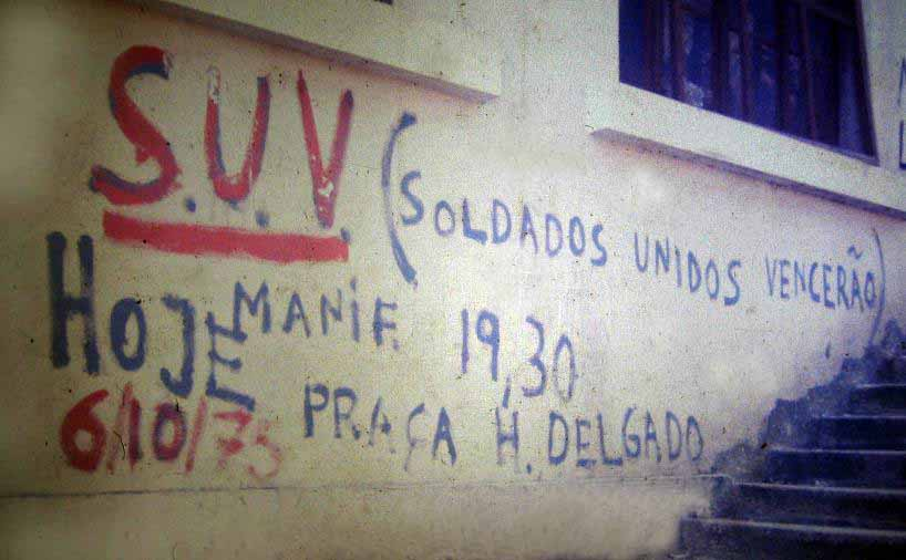 SUV - Soldiers United Win - Demonstration in Oporto